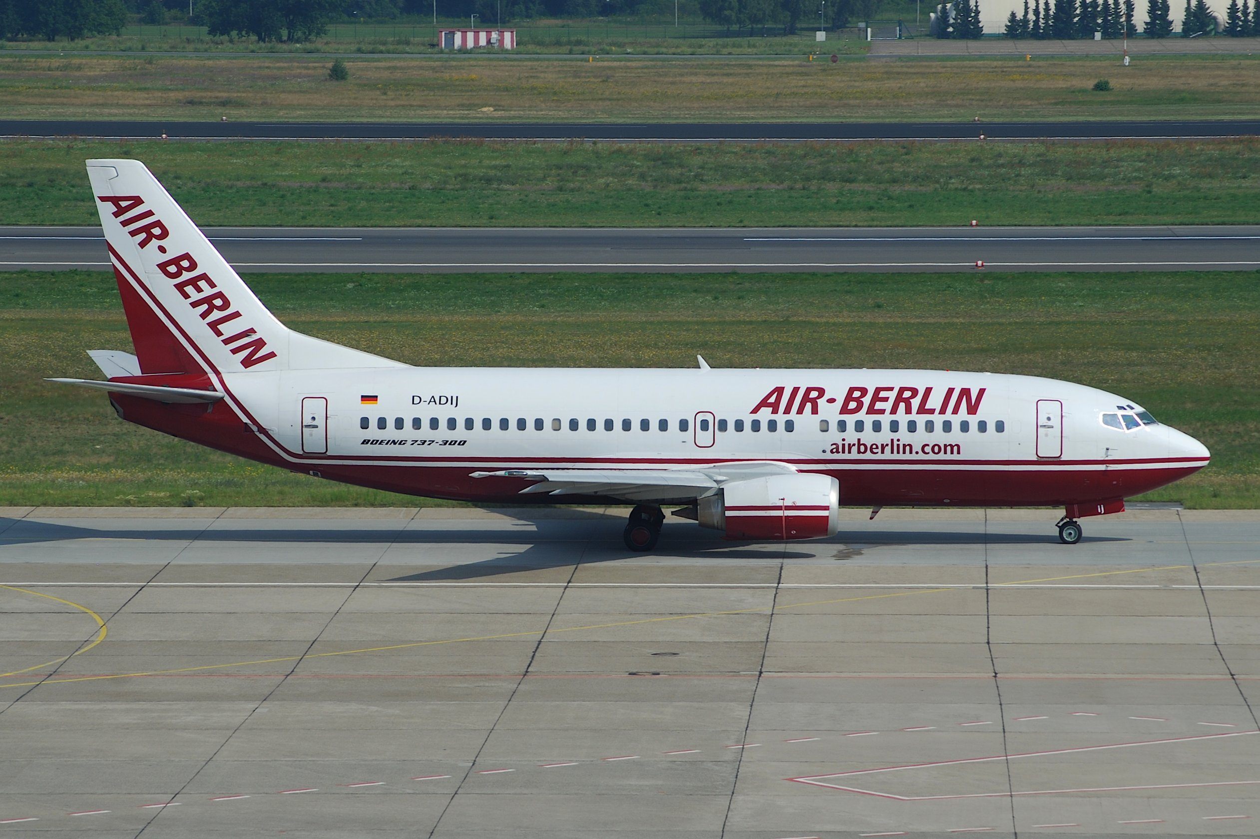 This Boeing 737-3M8 (c/n 25041/ 2024) has had quite an interesting life with many operators: after its first flight on March 22, 1991 it served with the following operators: TEA ( as OO-LTL), Air Aruba, Eurobelgian Airlines, EBA Italy, EBA Belgium, Virgin Express (all as OO-LTL, too), from June 1999 to February 2001 with Virgin Express Ireland as EI-TVP, Virgin Express again as OO-LTL, Flyglobespan as TF-ELC, from January 2005 until being taken over by Air Berlin with flydba as D-ADIJ. Since November 2009 this work horse is rocketing through South American skies, as CP-2552 with Boliviana de Aviacion.